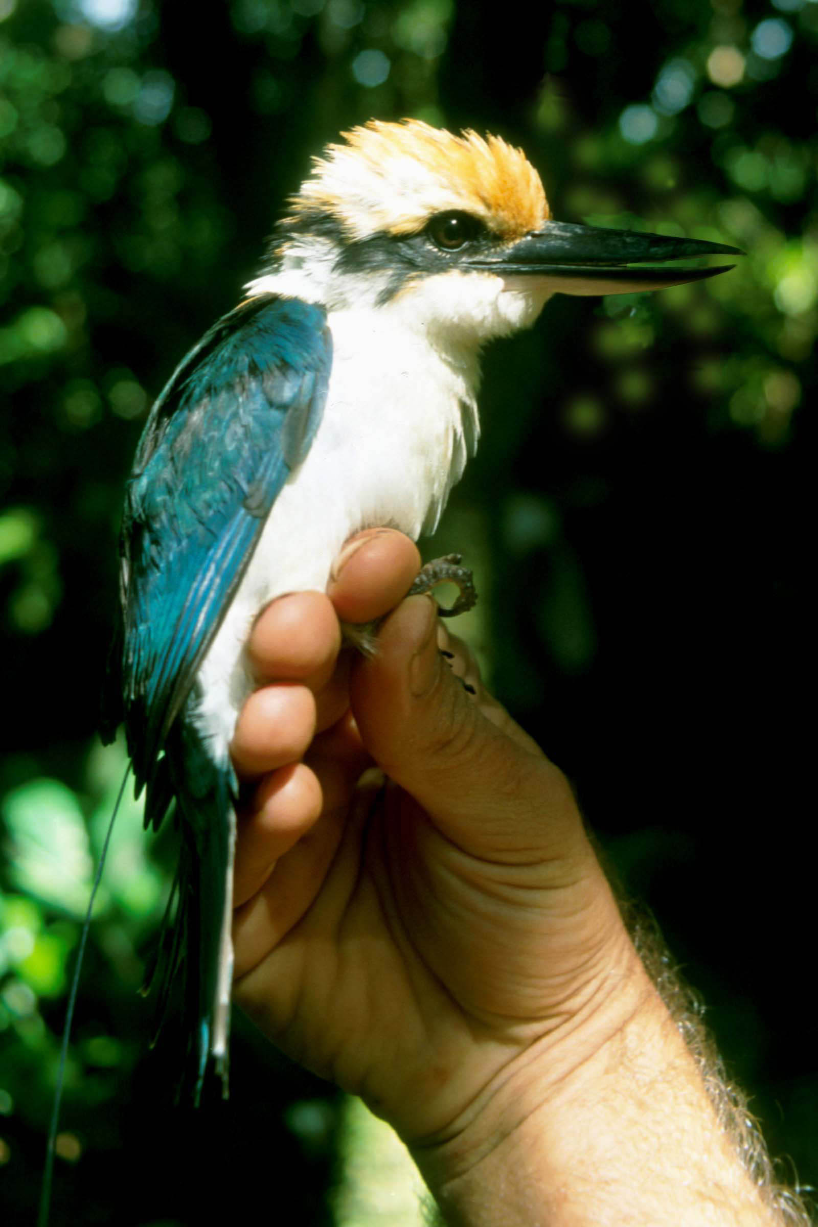 Photo a Micronesian Kingfisher (Todiramphus cinnamominus reichenbachii) during 1999 field work on the island of Pohnpei, Federated States of Micronesia. The bird was captured with a mist net and fitted with radio telemetry.